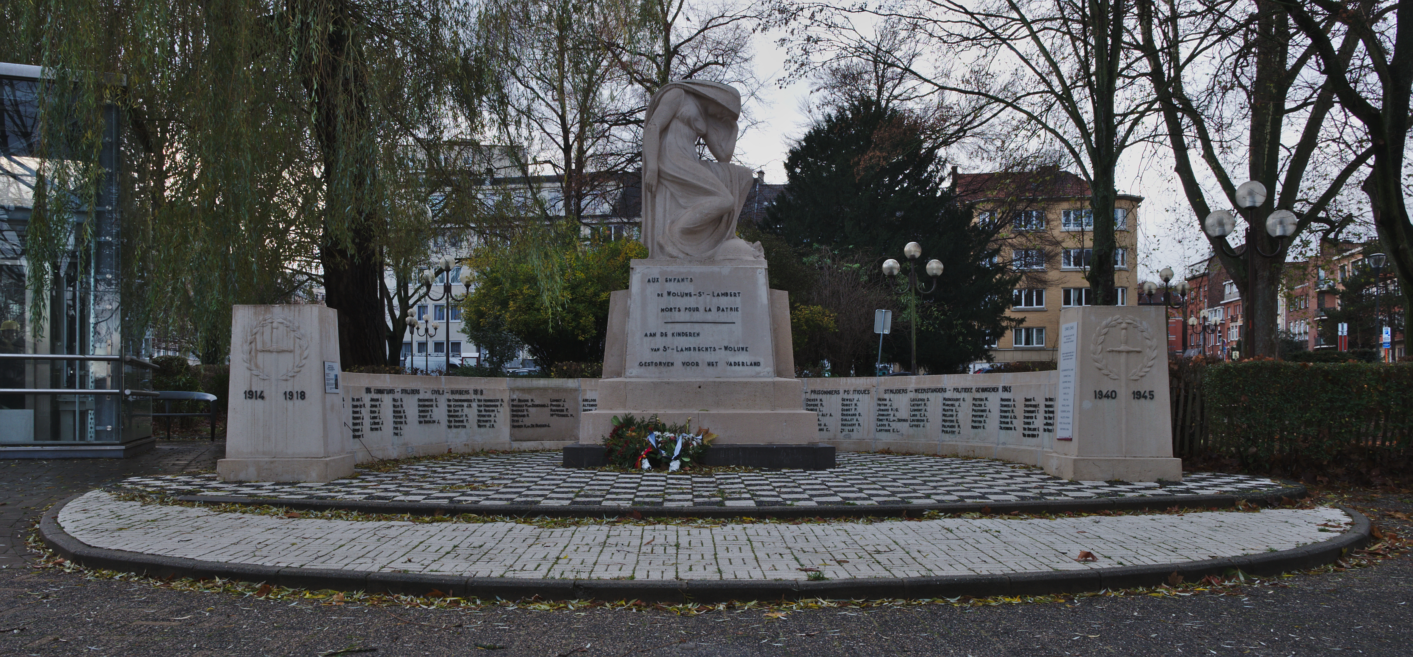 Monument aux enfants de Woluwe-Saint-Lambert morts pour la patrie by Eugène Canneel (Belgium)